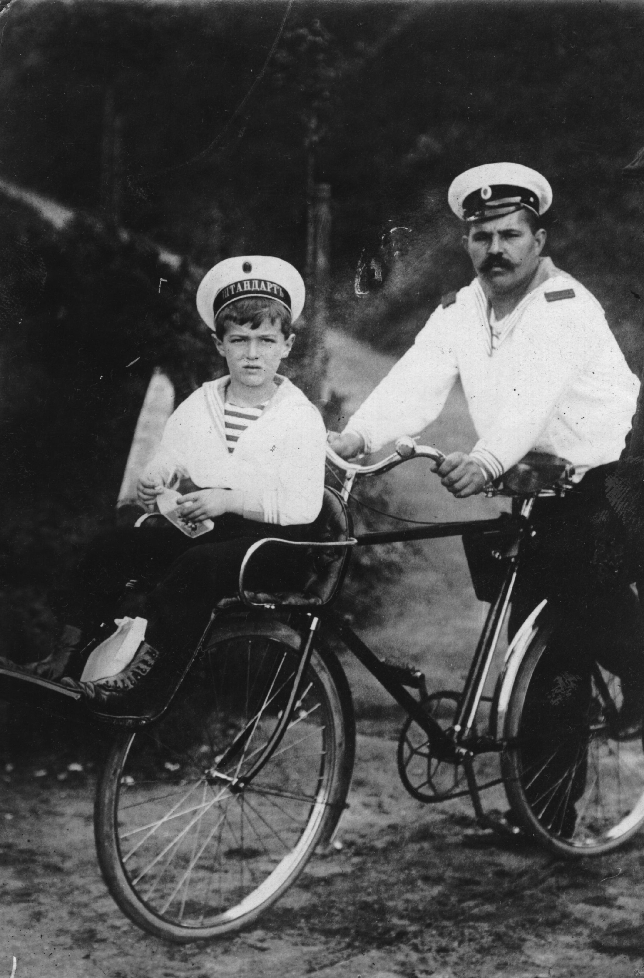 Alexei Nikolaievich of Russia and boatswain Derevenko (the sailor nanny) on a bicycle in Friedberg, Hesse.